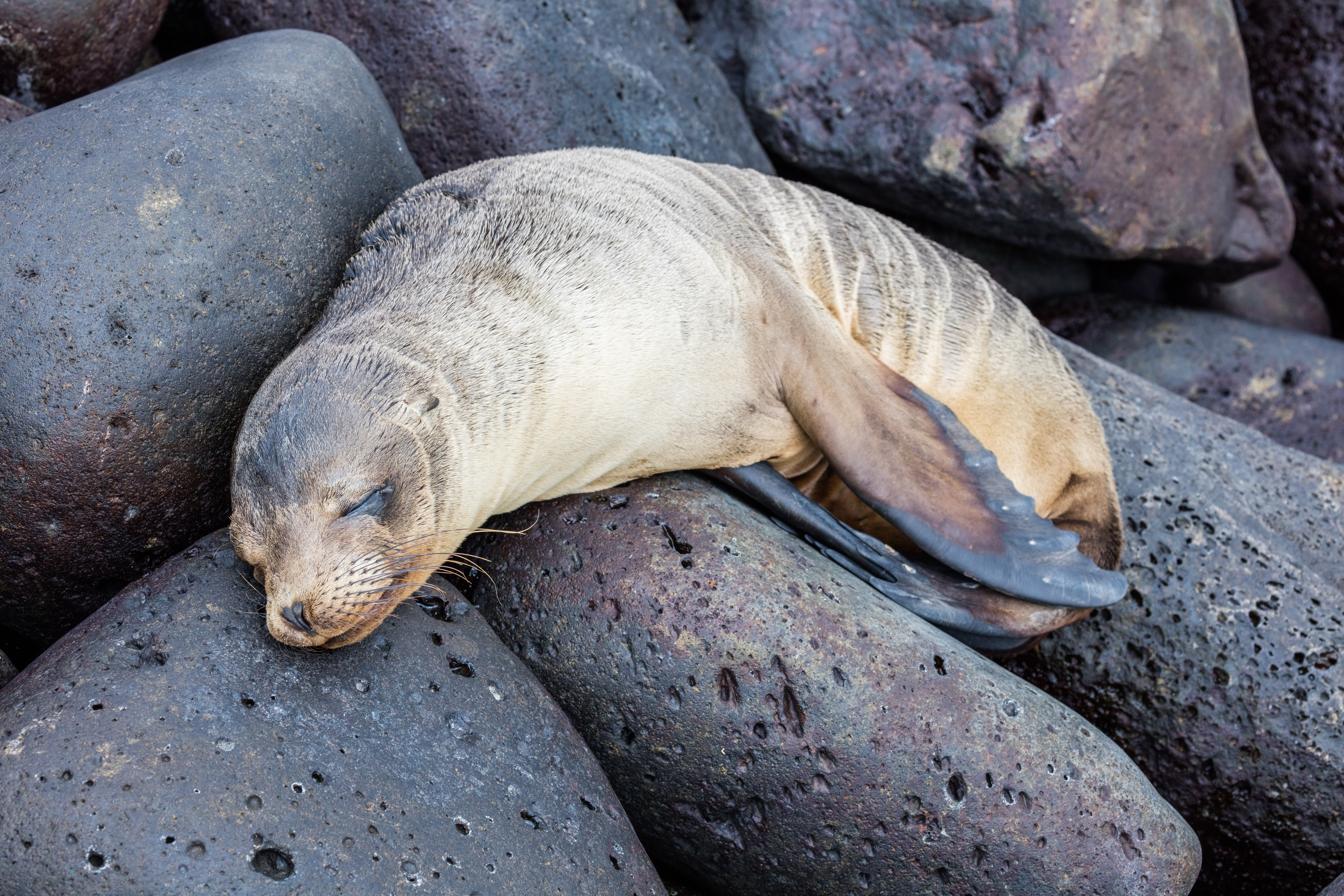 Sea lion (Zalophus californianus wollebaeki), Lobos island, Galapagos islands, Ecuador